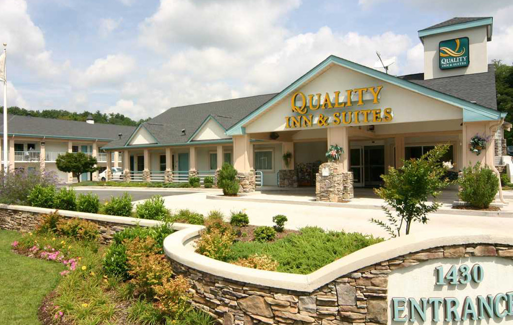 Quality Inn exterior, November 2017 Photo credit: Choice Hotels International, Inc.